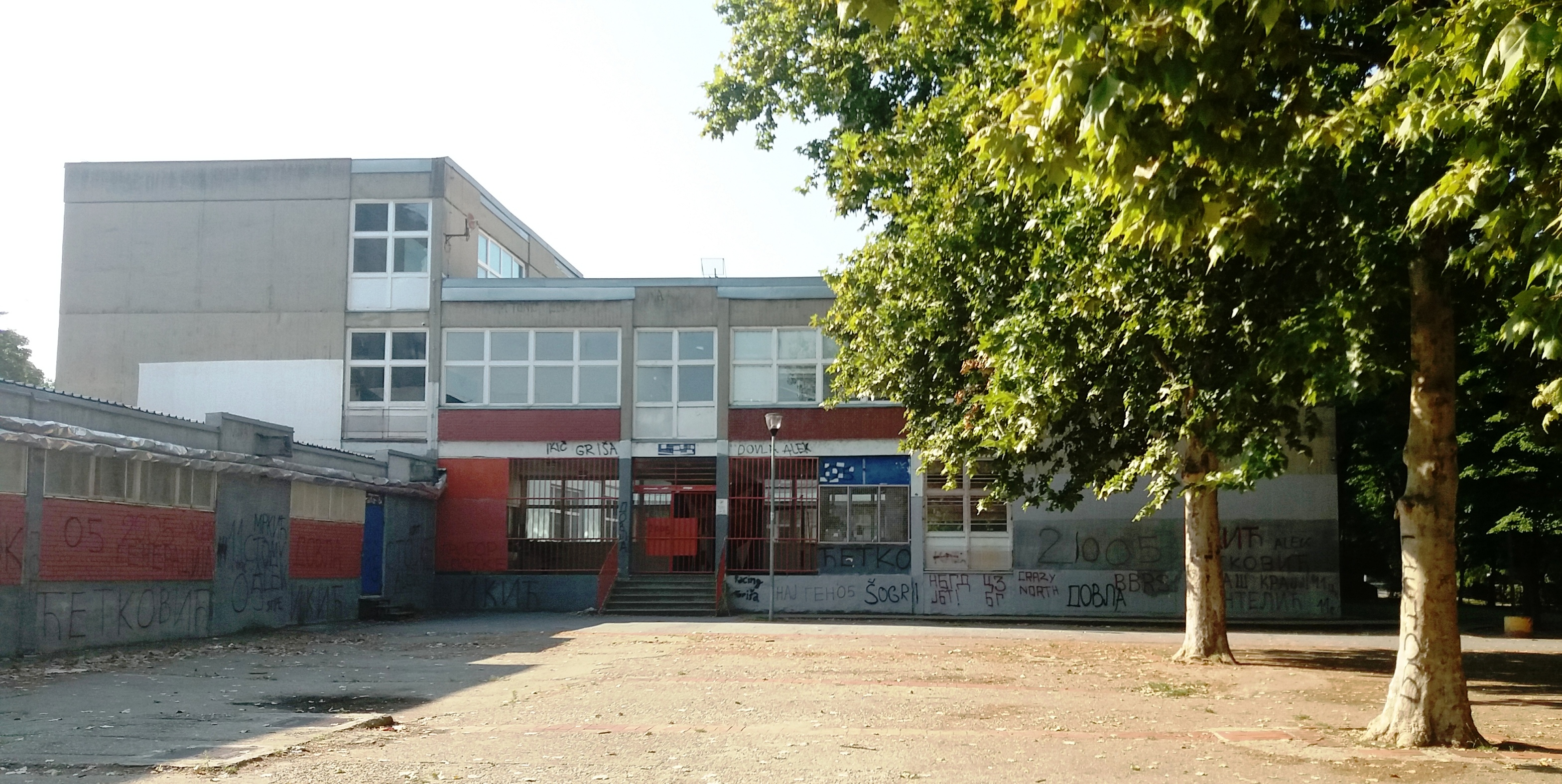 Elementary school "Kralj Aleksandar I", Block 11c, New Belgrade